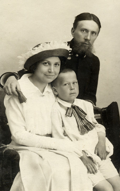 Liudas Gira with wife and son Vytautas Sirijos Gira